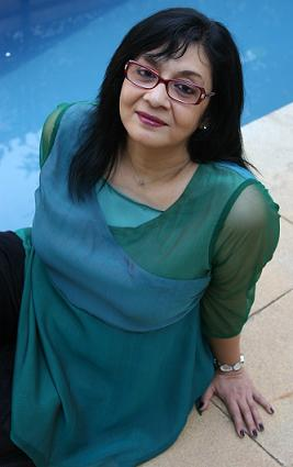 This is a picture of Indian Jazz Diva, Radha Thomas